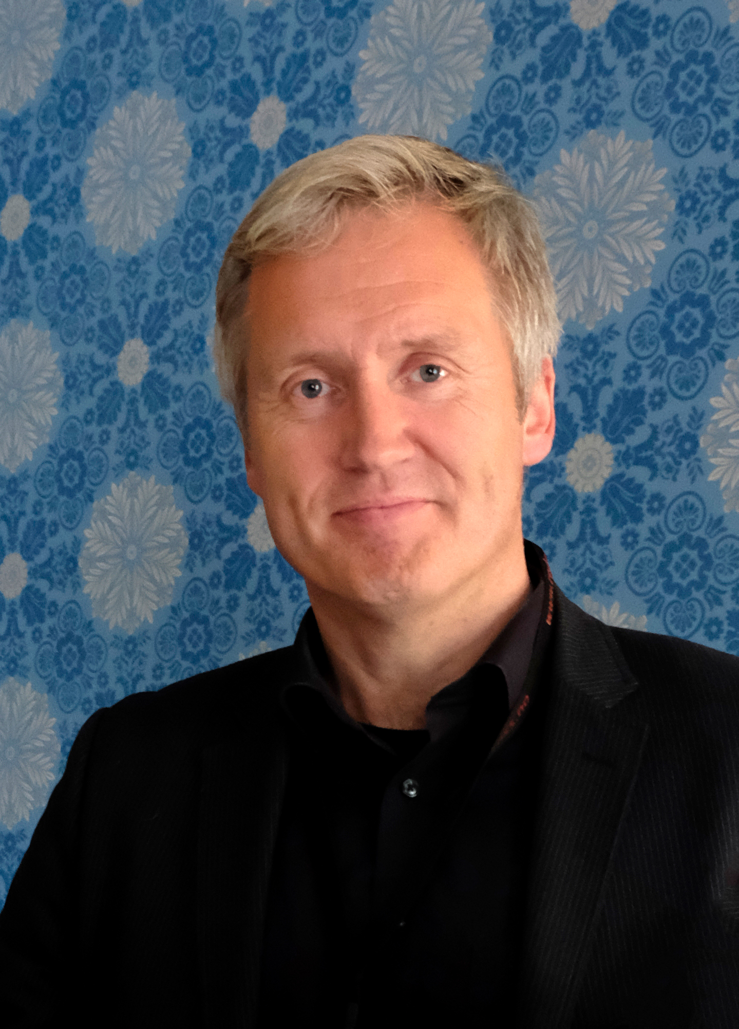 Portrait of Bård Frydenlund, the CEO of the museum Eidsvoll 1814 - the Norwegian Constitutional Museum. The picture was taken in september 2018 and showes face and shoulders. The background is a unique wallpaper from the Eidsvoll House, the main building of the museum Eidsvoll 1814.